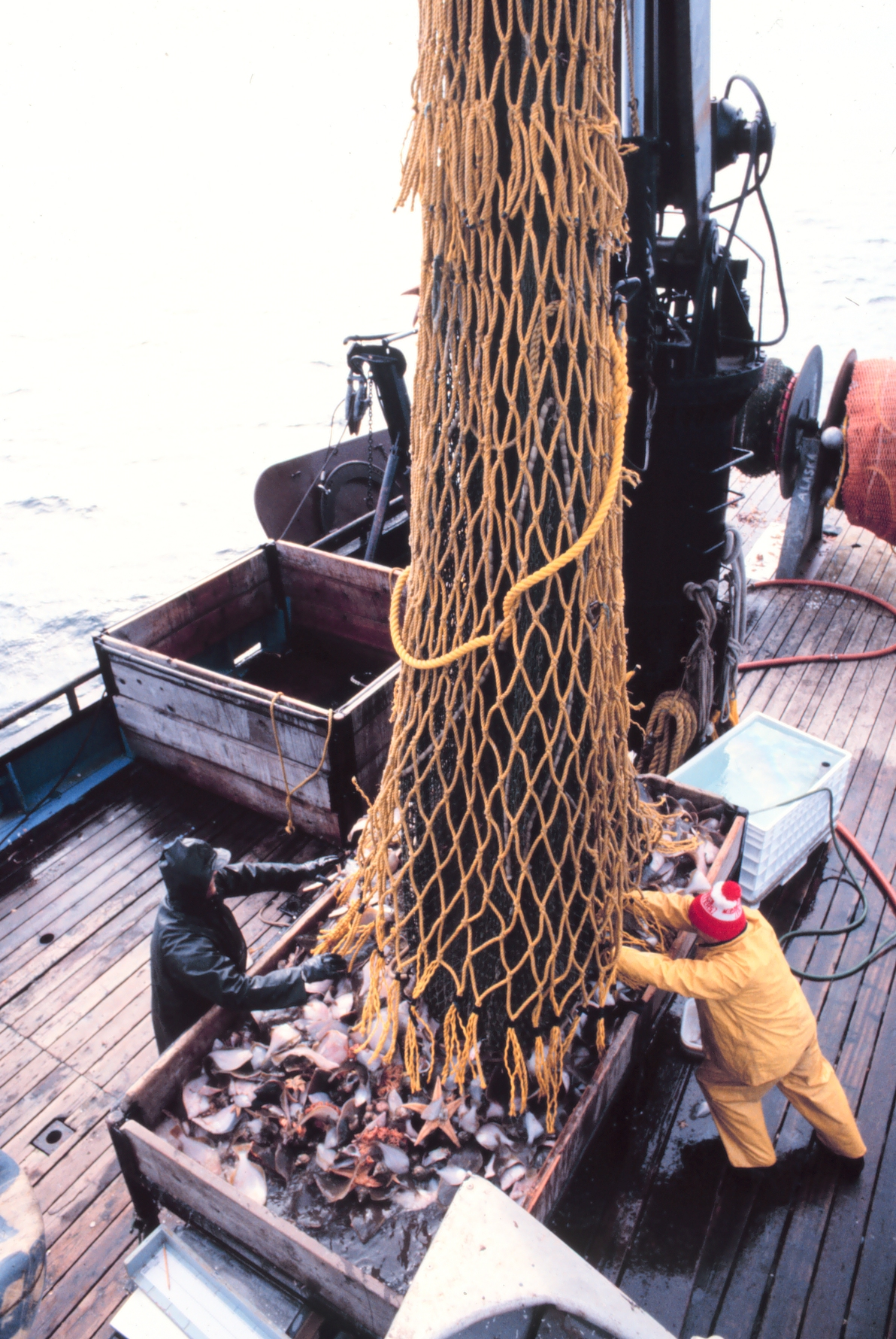 Depositing contents of cod end of net in checker for sampling operations.